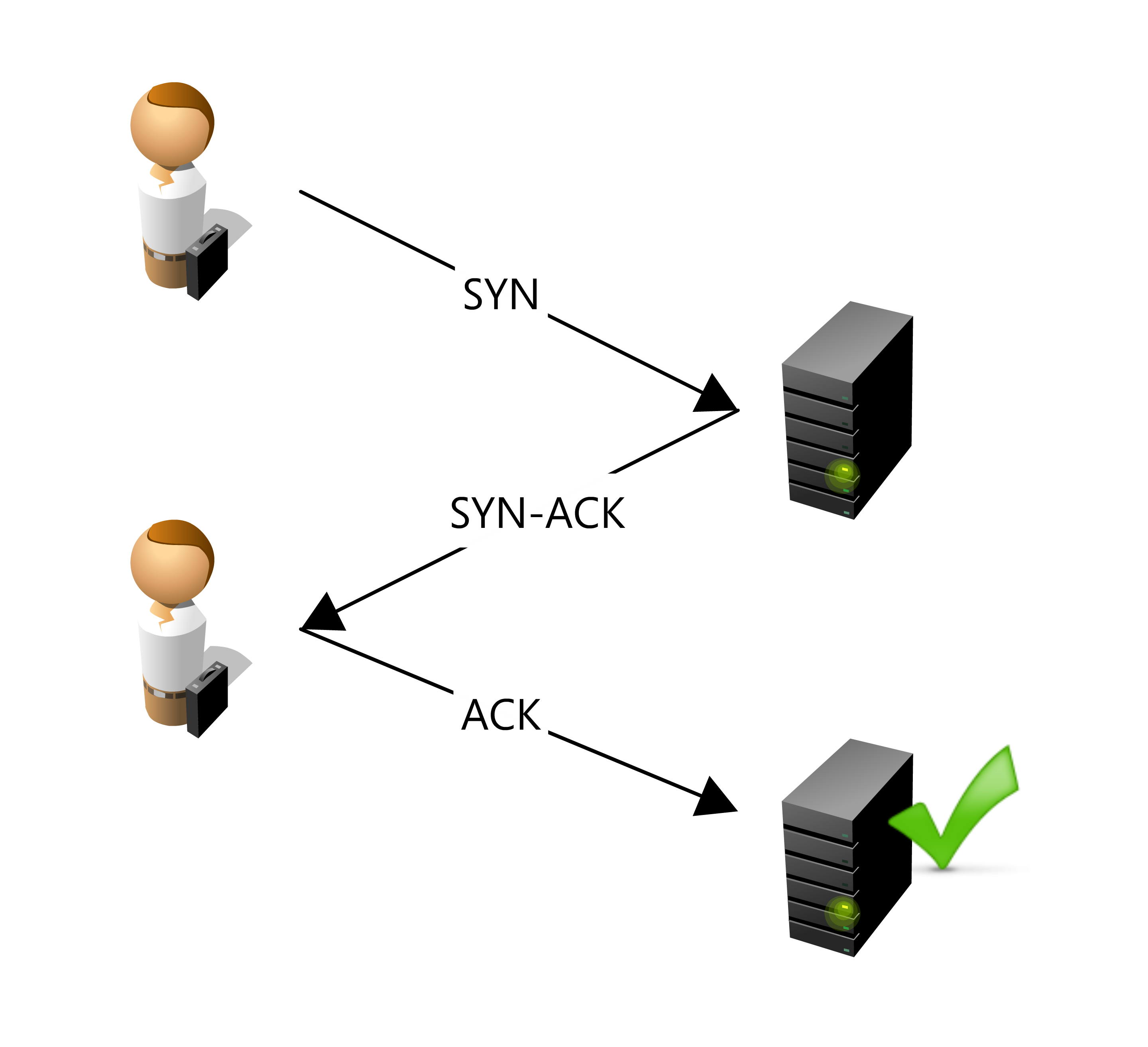 TCP connection : usual scenario.